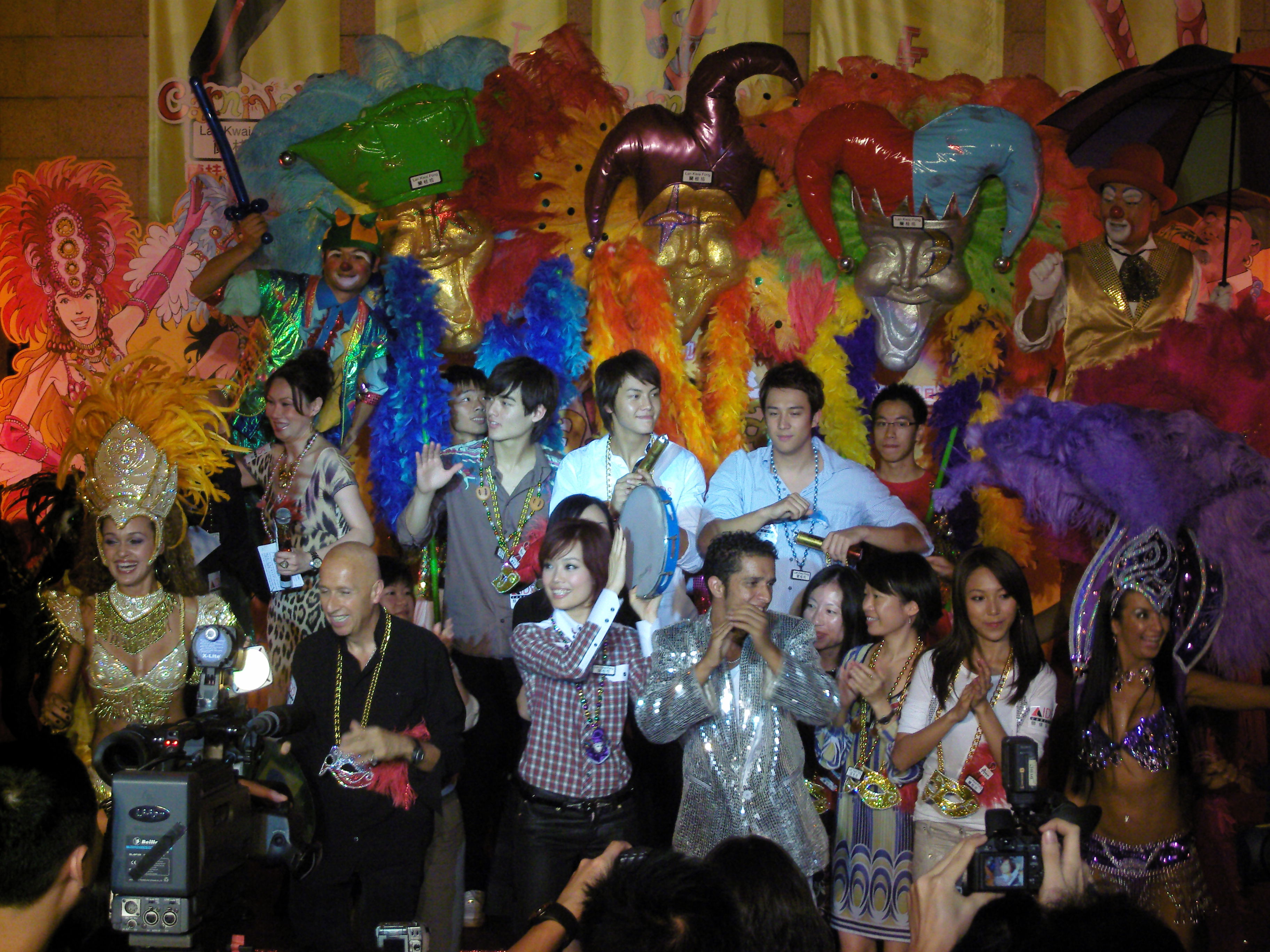 Lan Kwai Fong Carnival 2007 at Lan Kwai Fong, Central, Hong Kong.